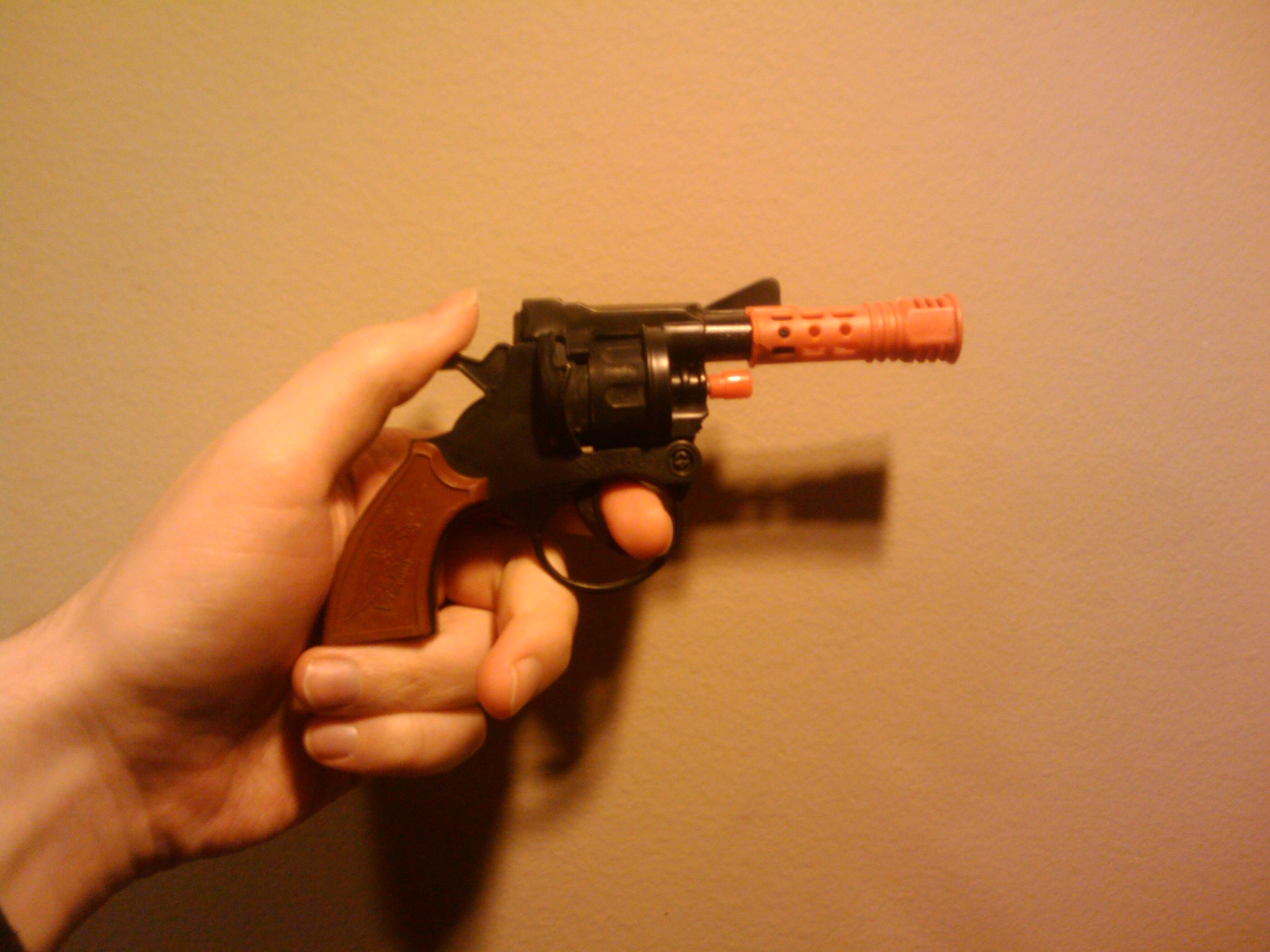 A better pic of the cap gun